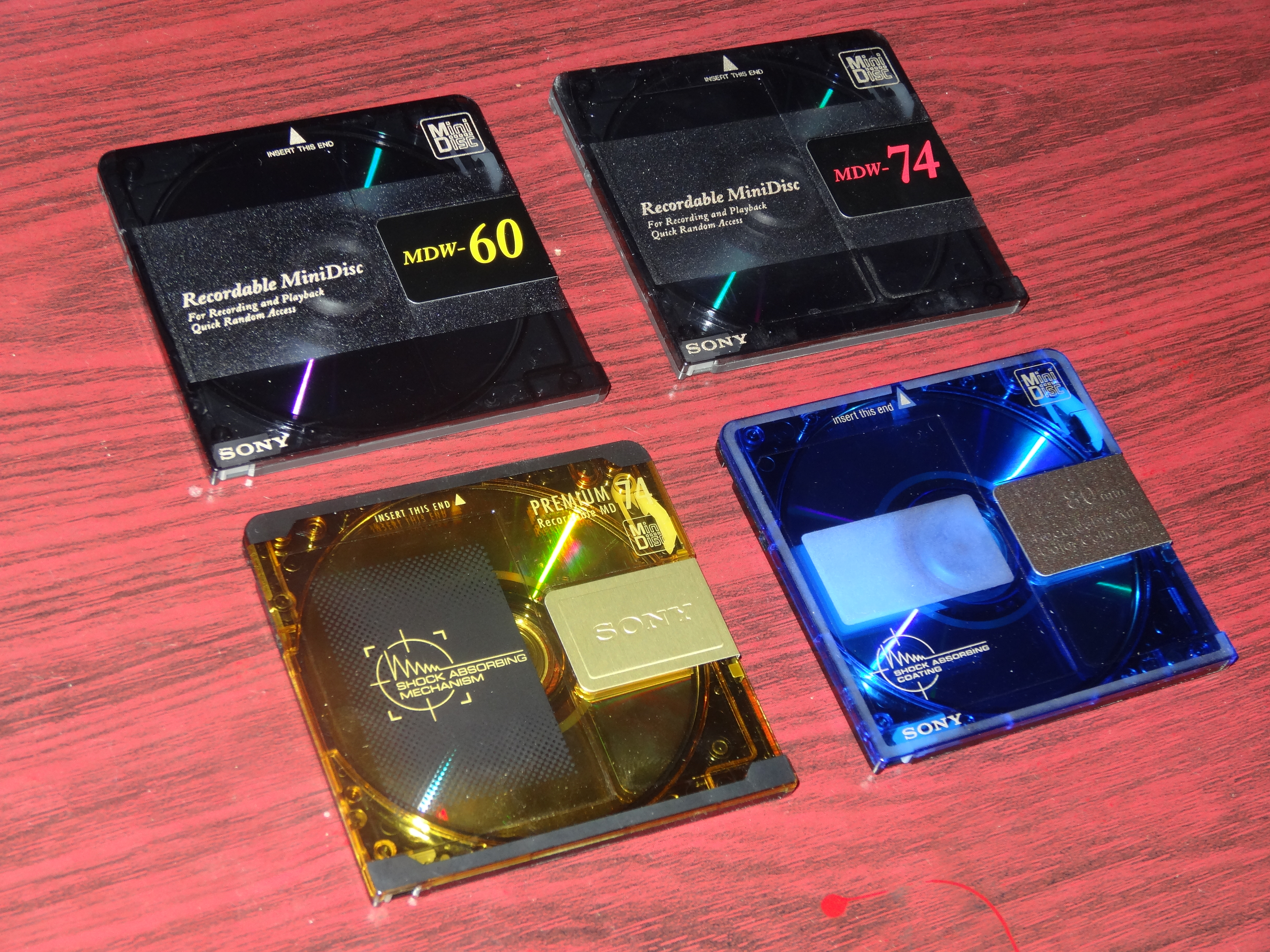 Various rewritable minidisc with variable durations, which have been updated over time.